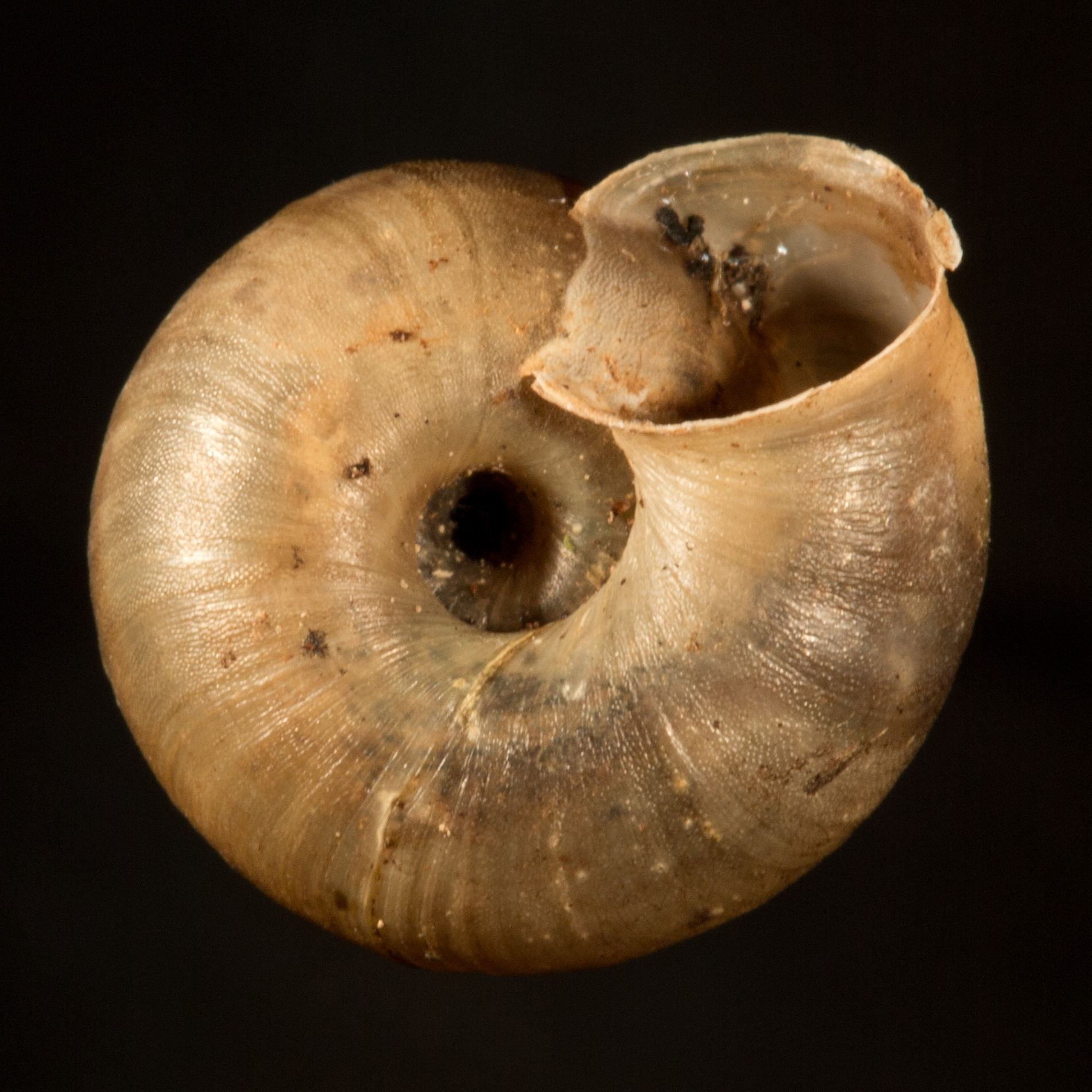 Urticicola umbrosus basal